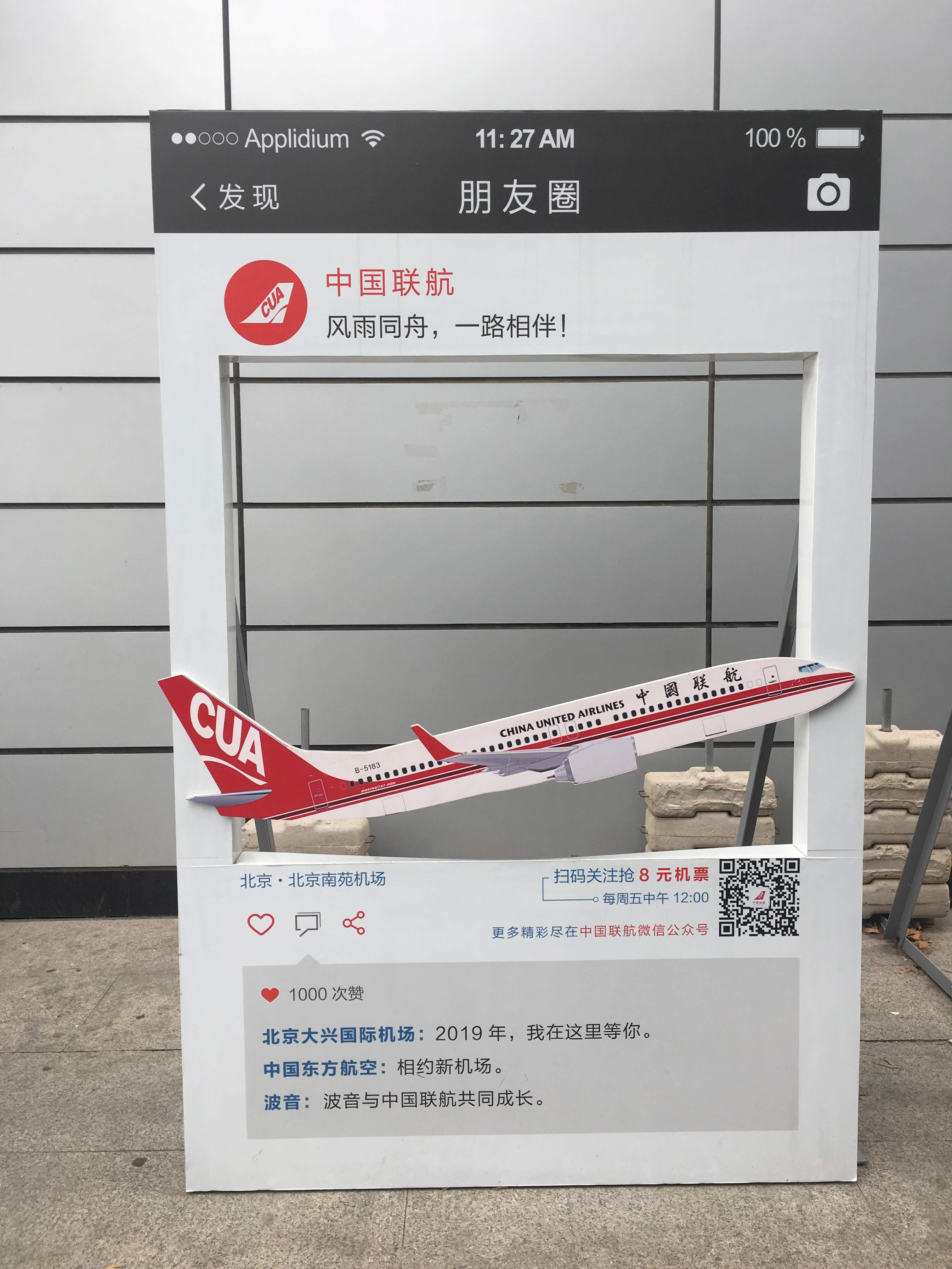 Beijing Nanyuan Airport a few days before Transitions WeChat Moment